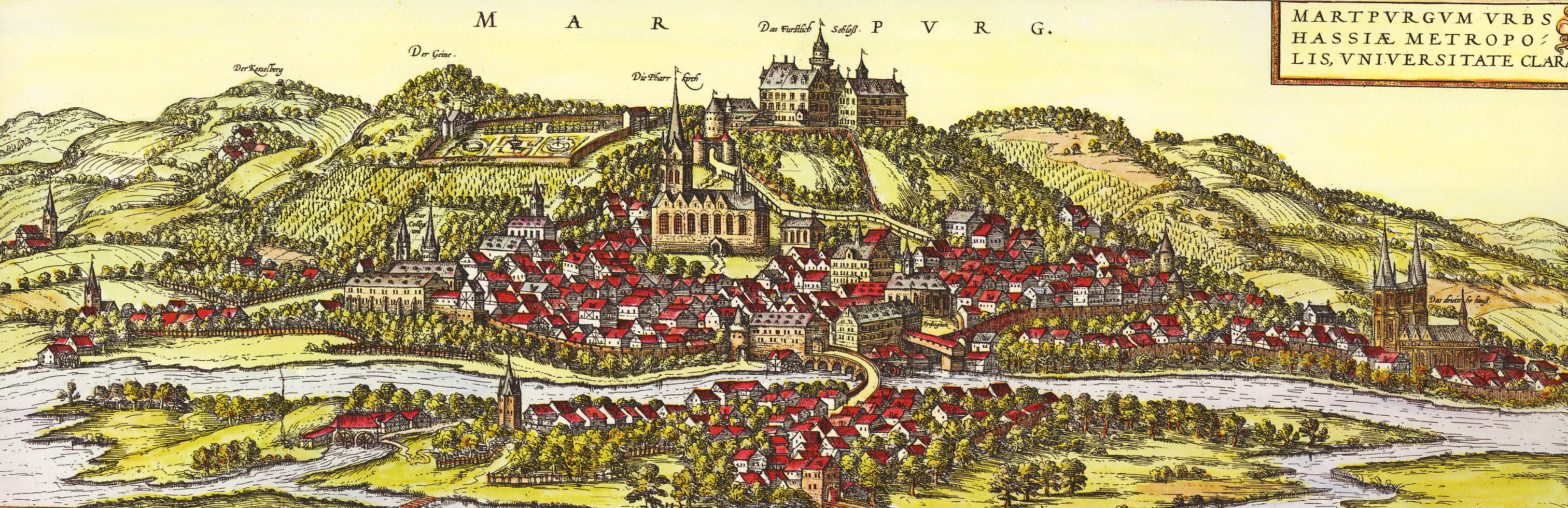 historical view of the German town of Marburg by Georg Braun and Franz Hogenberg (between 1572 and 1618)